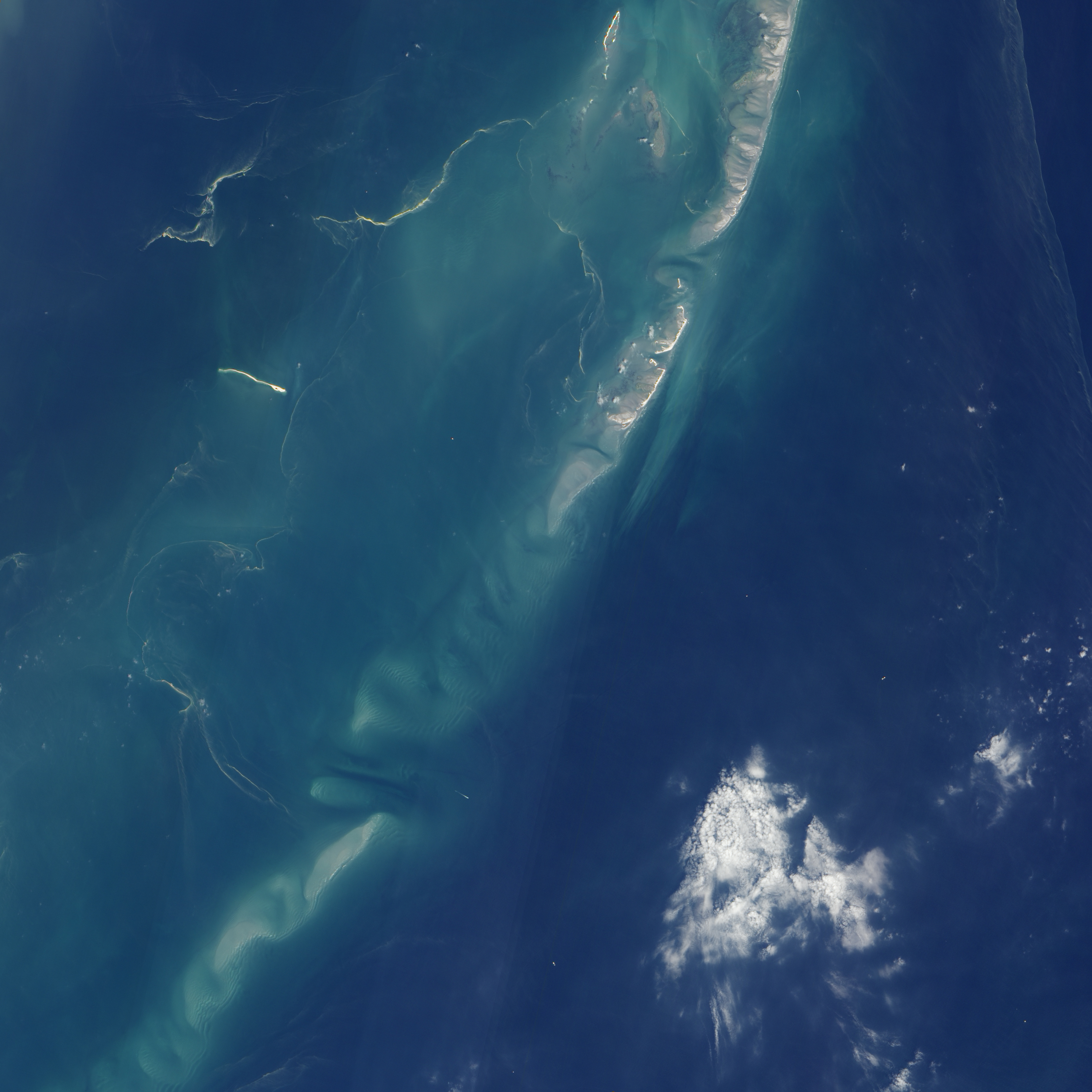 Light tan streamers snake across Chandeleur Sound in this detailed natural-colour satellite image. The streamers are probably ropes of oil from a leaking well in the Gulf of Mexico. The streamers surround Freemason Island and arc through Chandeleur Sound west of the Chandeleur Islands.